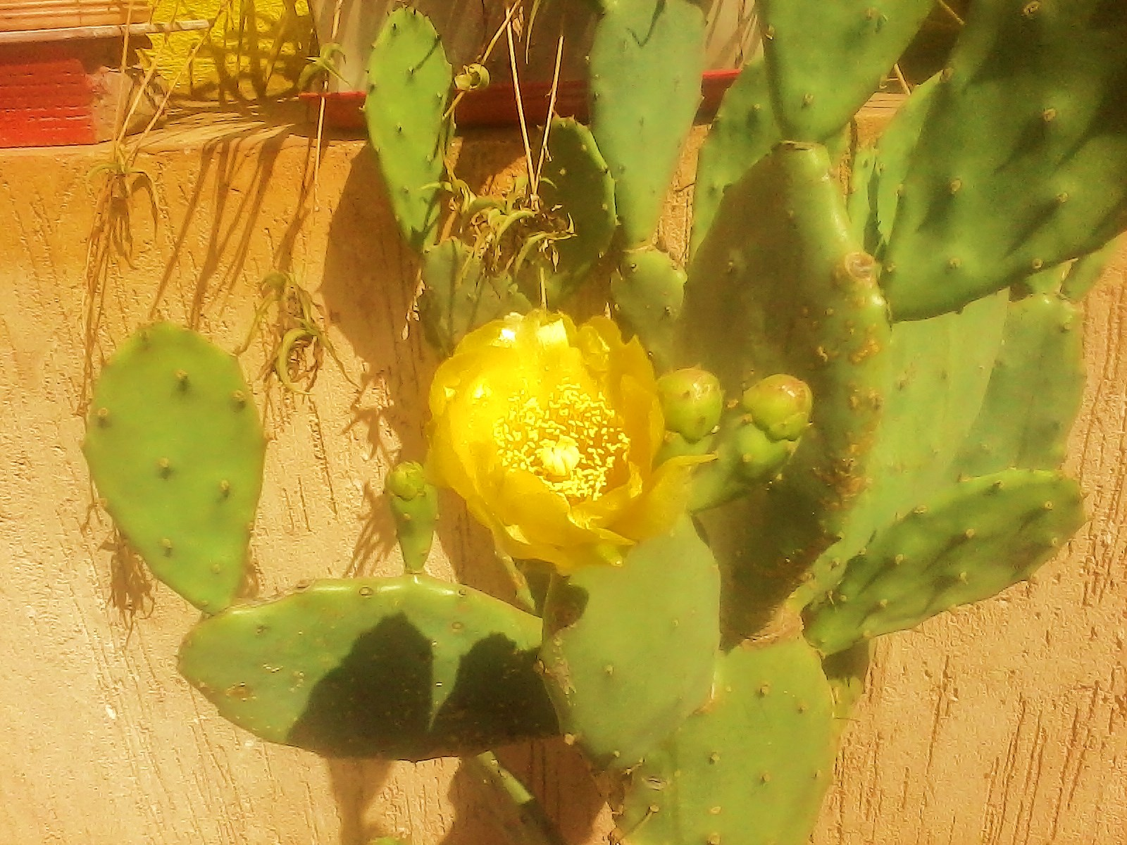 Cactus Flower